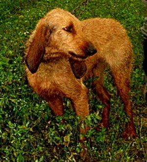 Rough-Coated Italian Hound (Segugio Italiano a pelo forte)